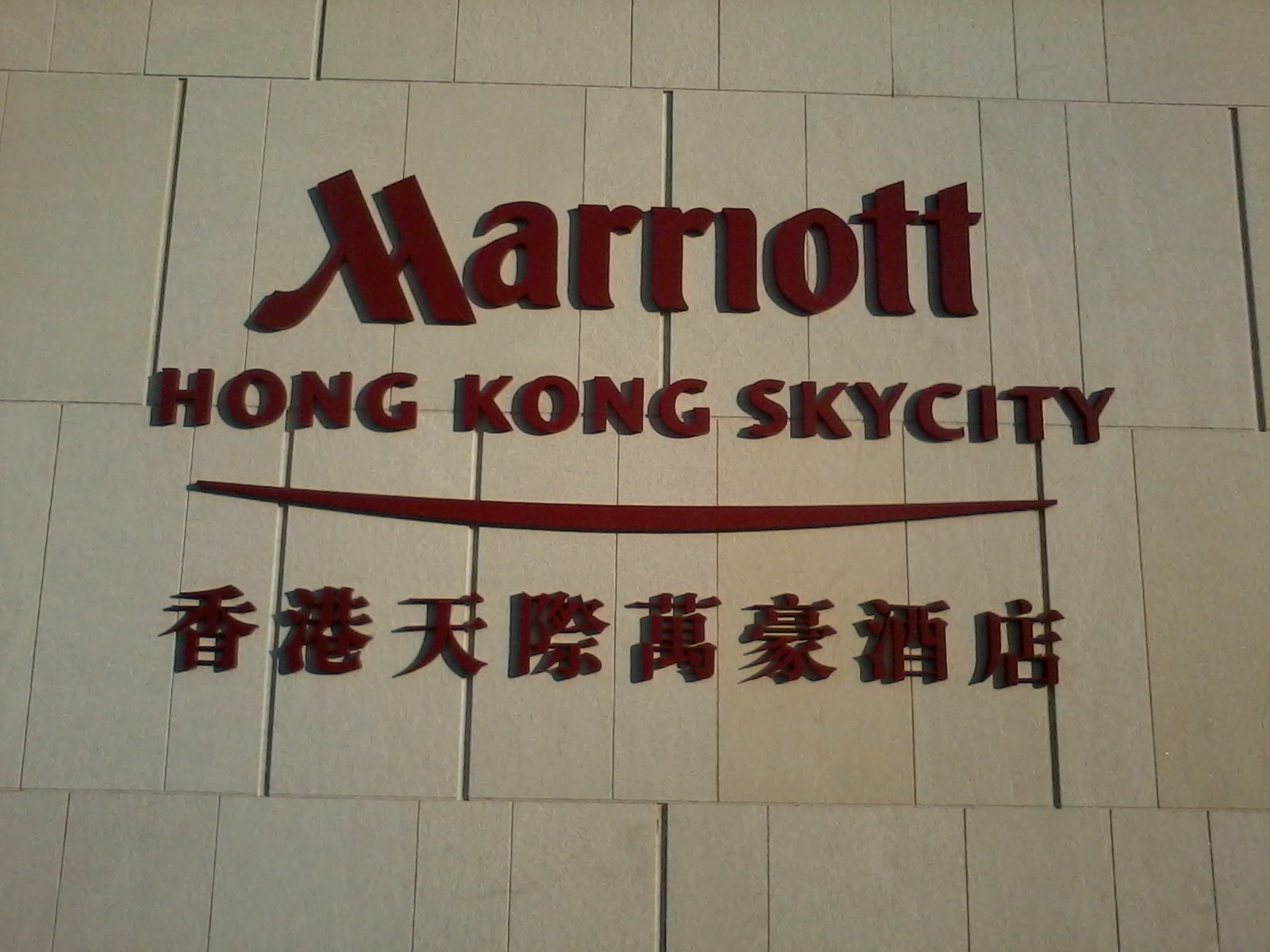 赤鱲角 香港天際萬豪酒店, Marriott Hong Kong SkyCity, SkyCity, Chek Lap Kok, Islands District, Hong Kong